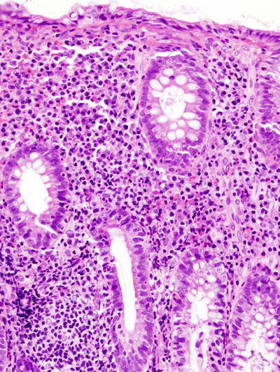 Histopathological image of the active stage of ulcerative colitis. Endoscopic biopsy. Hematoxylin & eosin stain.